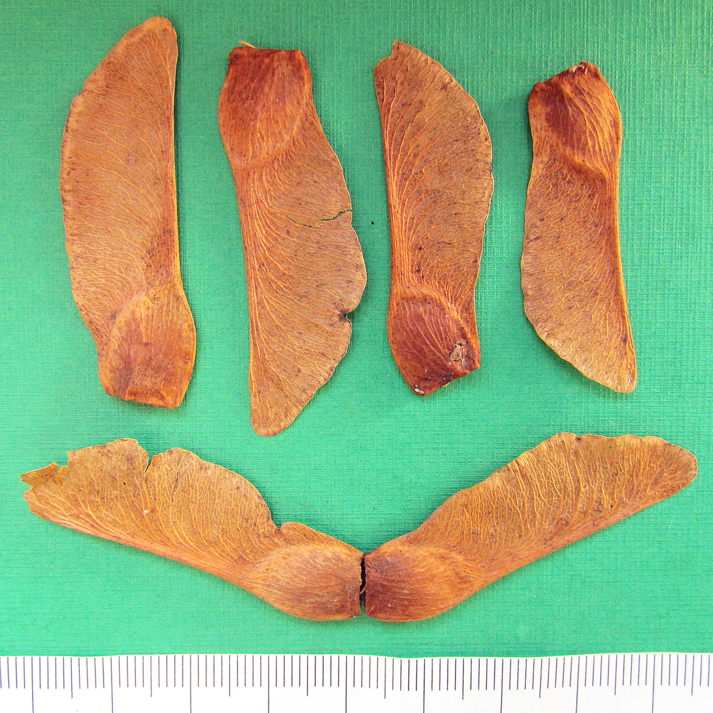 Acer platanoides samaras